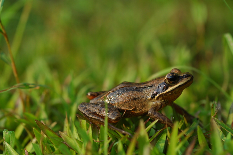 Rana coreana